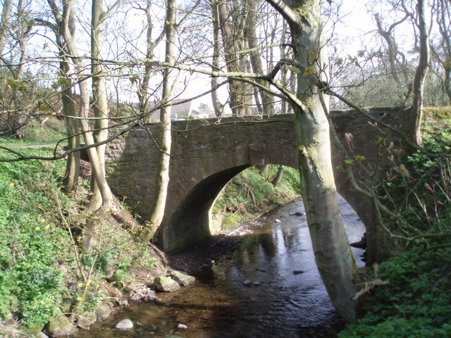 The Bridge at Upper Mill Barry